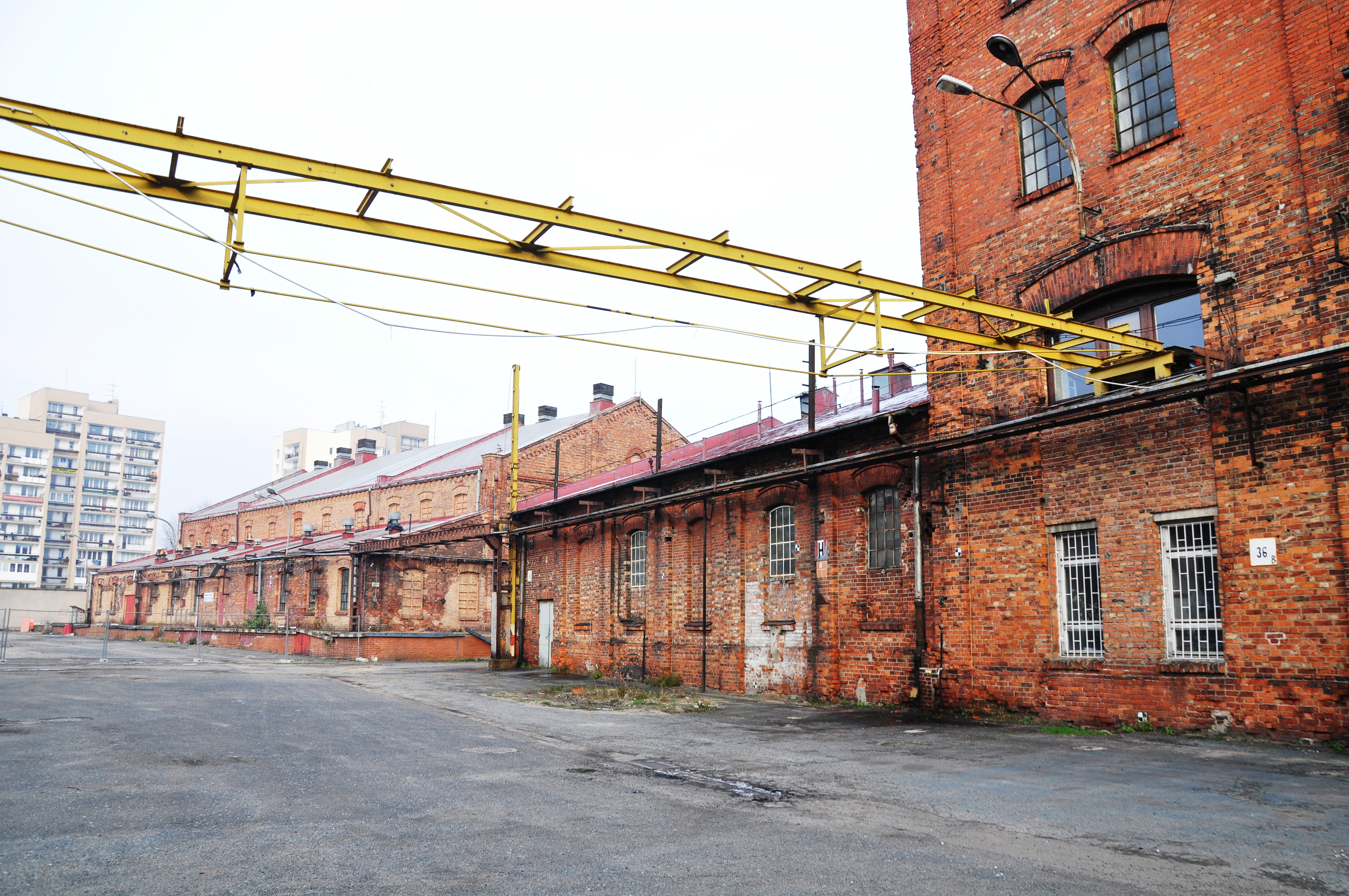 Koneser Vodka Factory